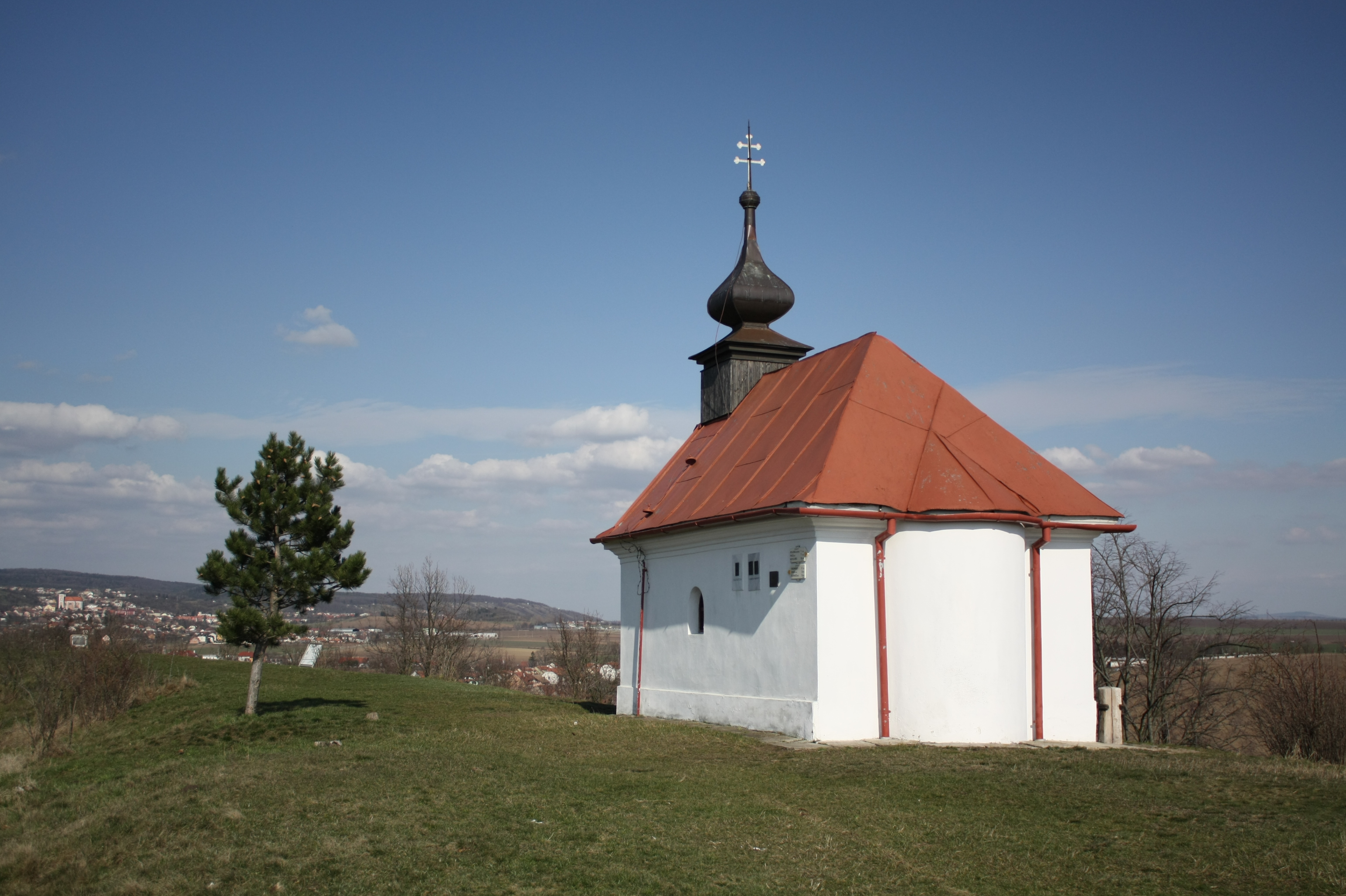 Santon hill, Brno-Country District, Czech Republic